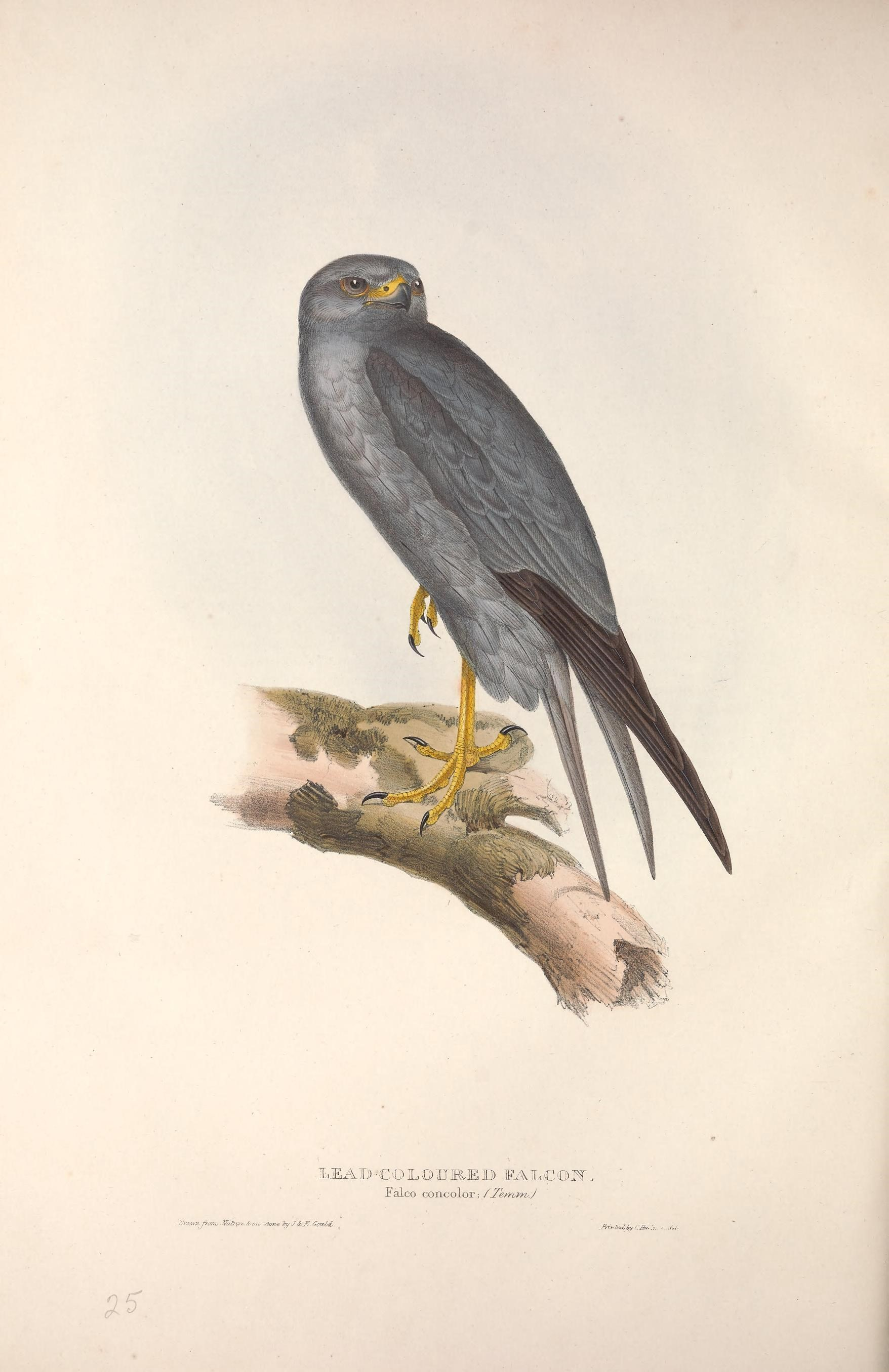 iJEAD^COILOITJREID) EAILCOI^. Falco concolor ; /Te/romy.J ■■infrorw ■Ya/7A,re- M cyL .^fe«^ .n/ -/th^- (hvZ^. Jiy-vr^^lri/C3j.::. 5^